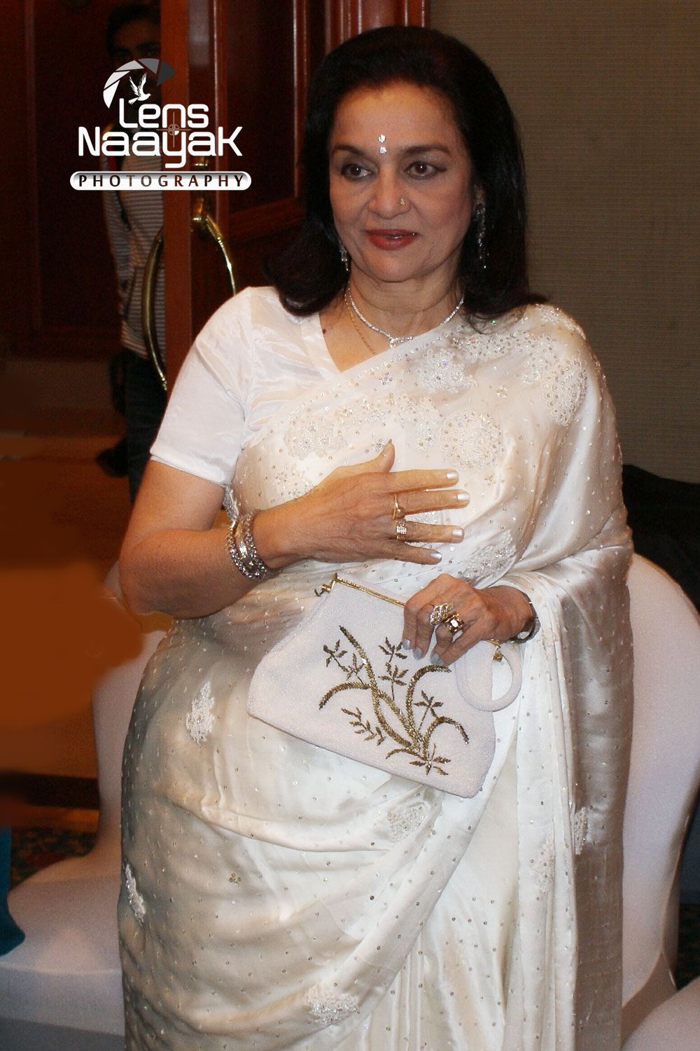 Hindi Cinema Actress Asha Parekh captured by Mustafa Khargonewala alias Camaal Mustafa Sikander - Lens Naayak Photography Mumbai Dubai New Delhi India